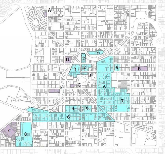 Amendments to Christchurch City Council’s District Plan. Map 5. Central City: Existing and new designations.